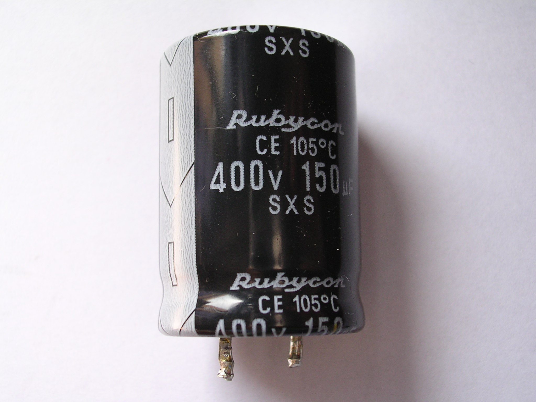 A radial Electrolytic capacitor. Capacitance: 150 µF; Voltage Rating: 400V